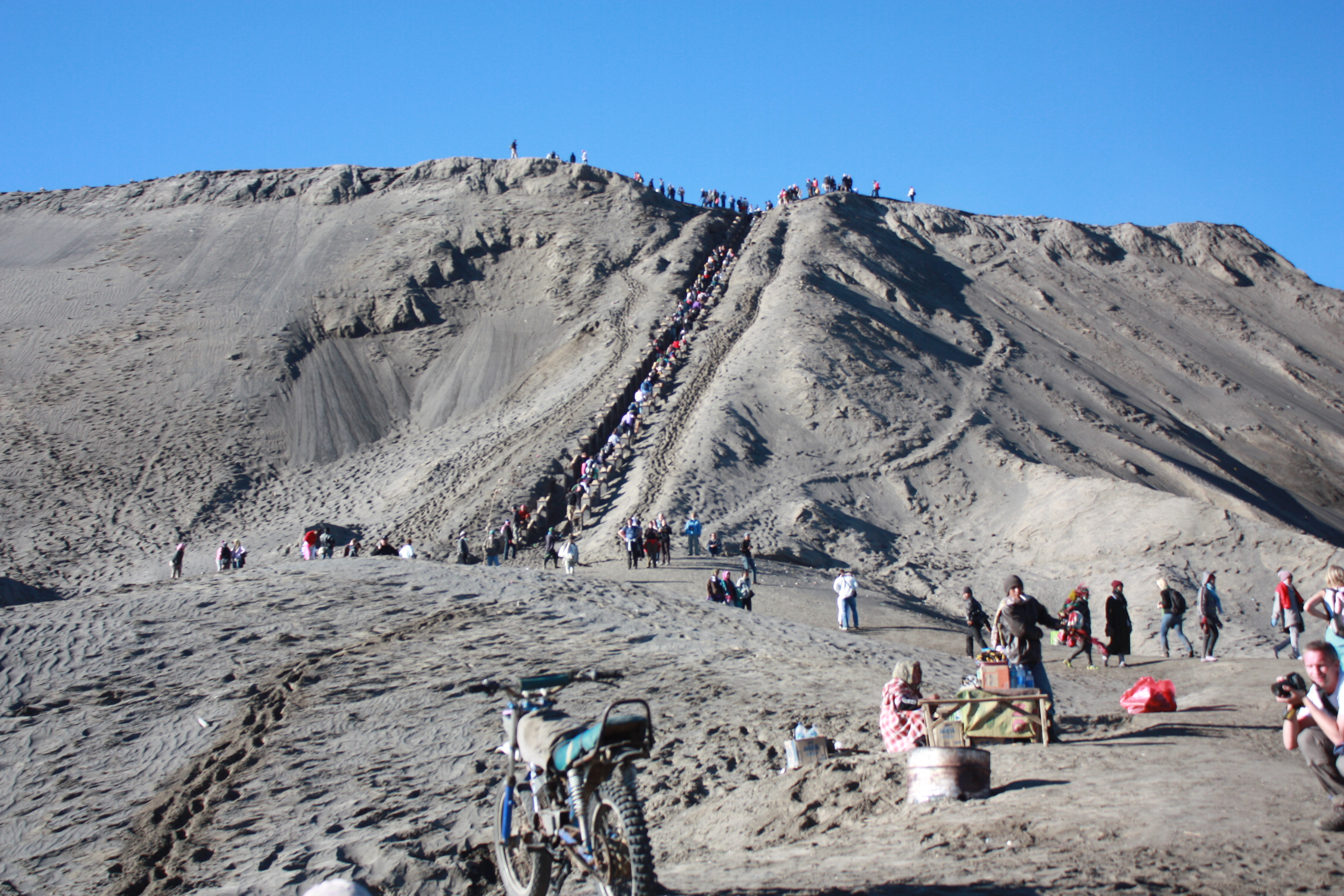 The Bromo is extremly popular for the local people and tourist too. This photo show the Laotian Pasir as Cenders's Sea, with the stairs to the crater edge, where the people throw any present to Brahma and Vishnu in the bottom of crater